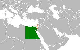 Egypt-Israel locator map.